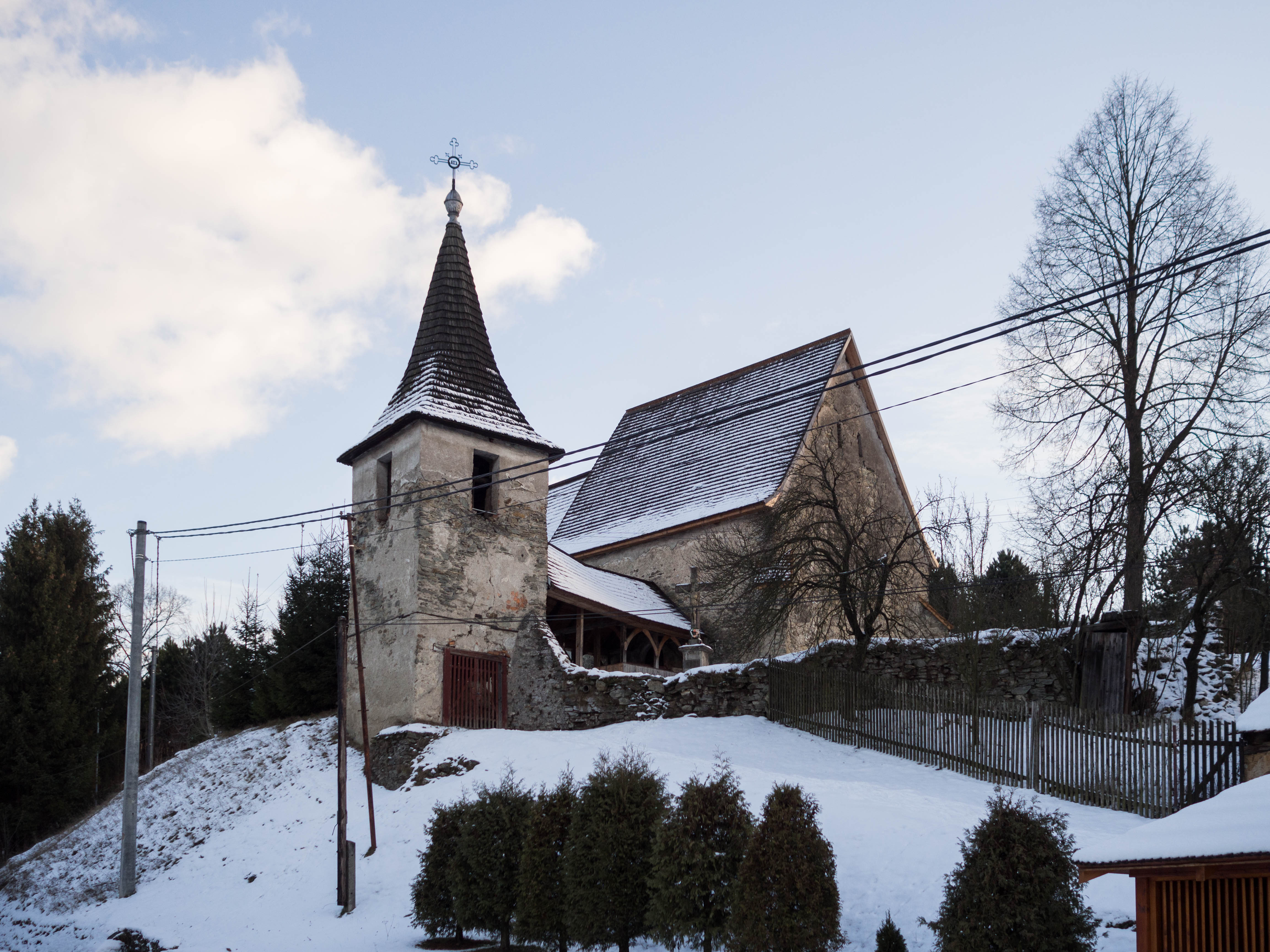 Gothic Roman Catholic Church of All Saints from 13th century in Henckovce, Slovakia.